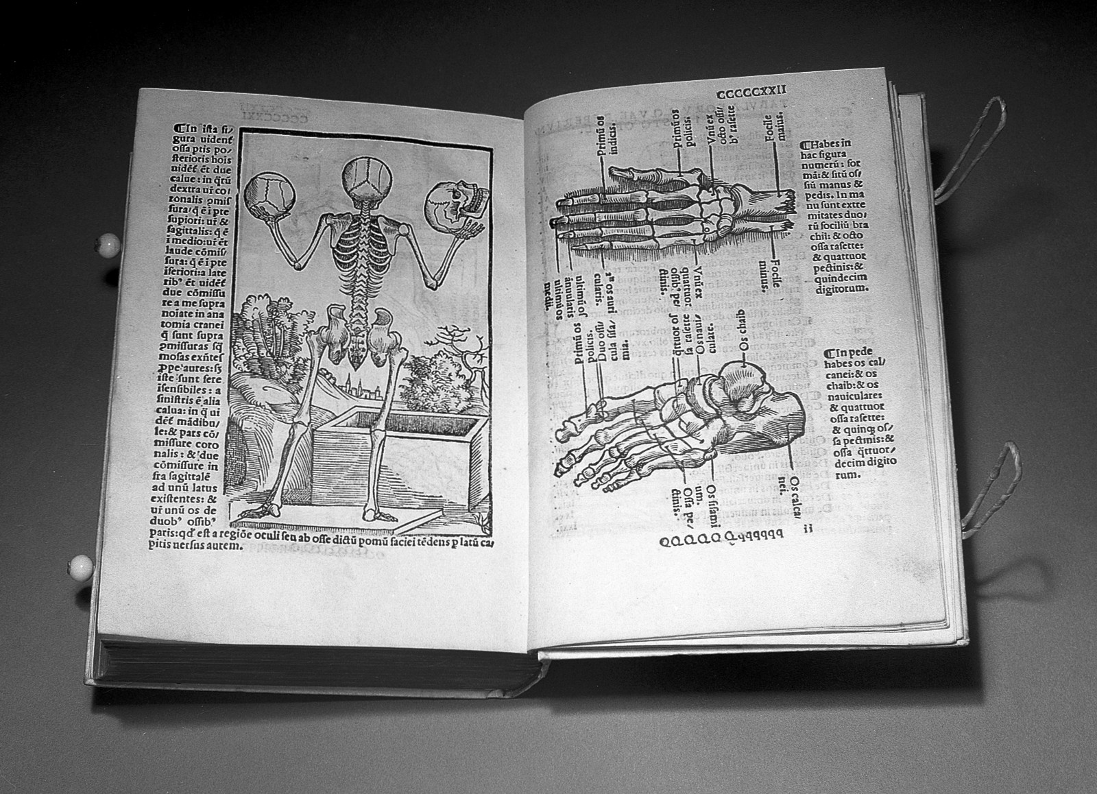 Folio 521 verso shows a skeleton Folio 521 recto shows the bones of the hand and of the foot. Rare Books Keywords: Anatomy